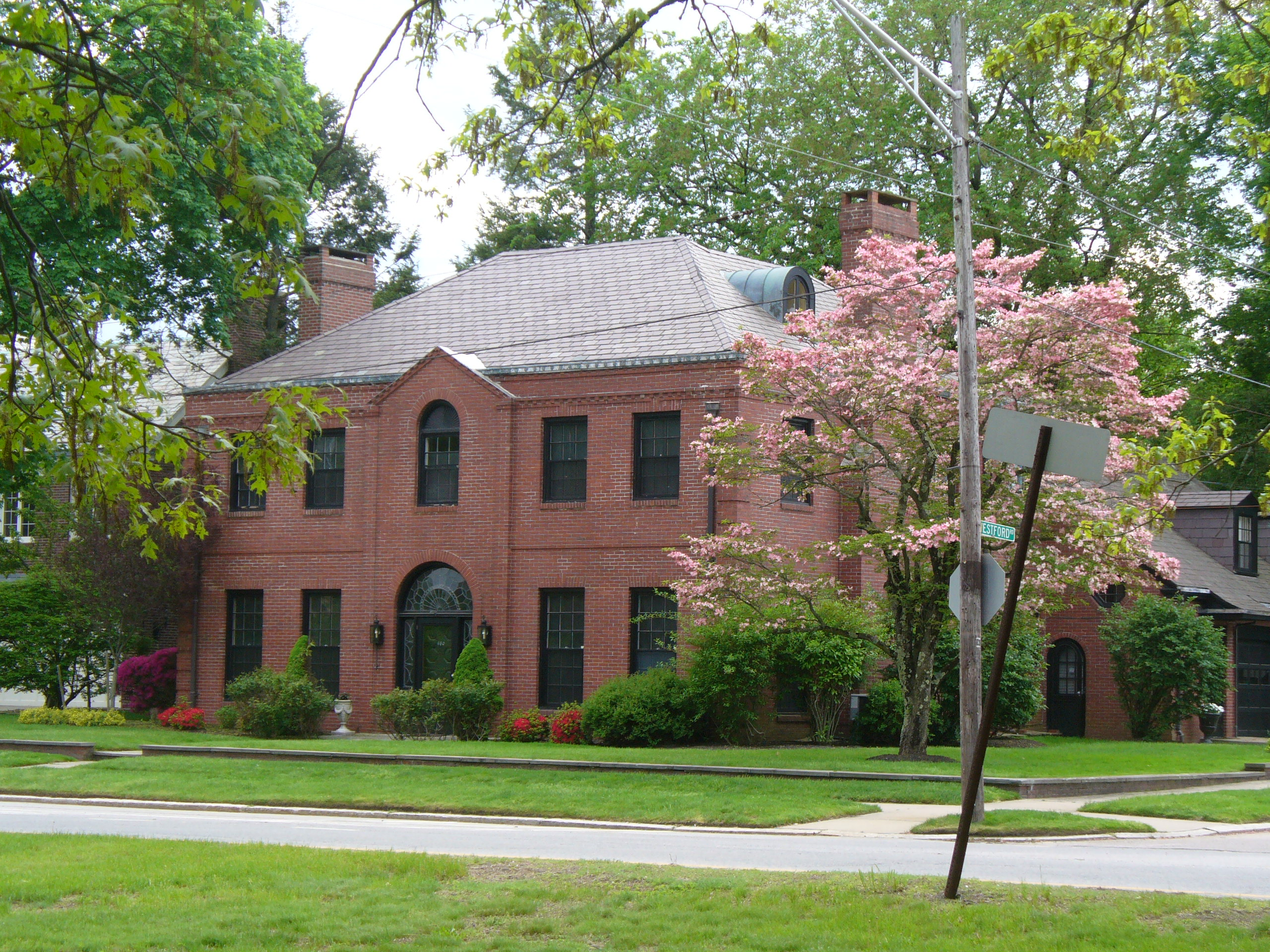 A house for Alice H. Moran on Blackstone Boulevard in Providence. Designed by architect Edwin E. Cull in 1935.